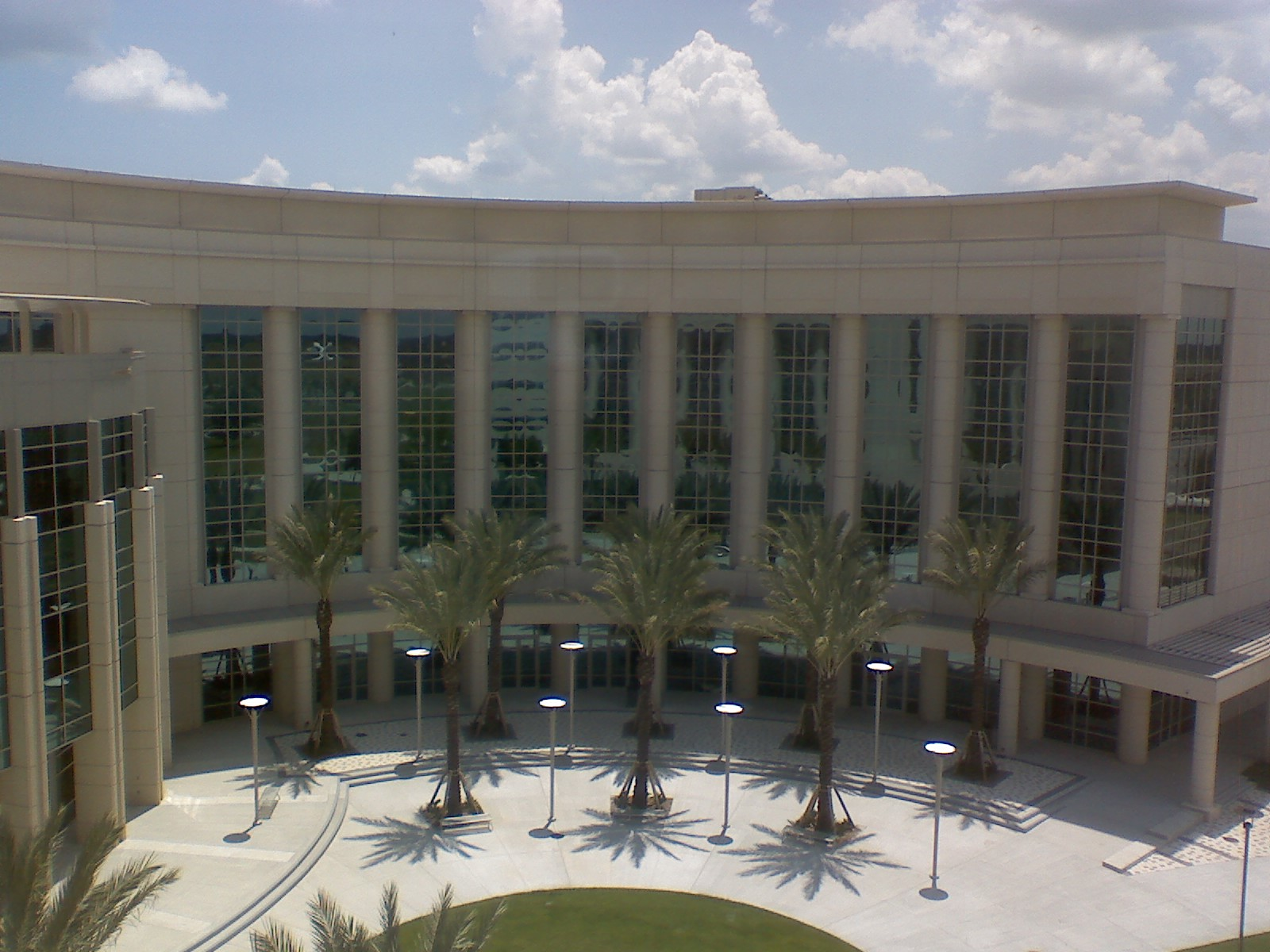 UCF College of Medicine at Lake Nona